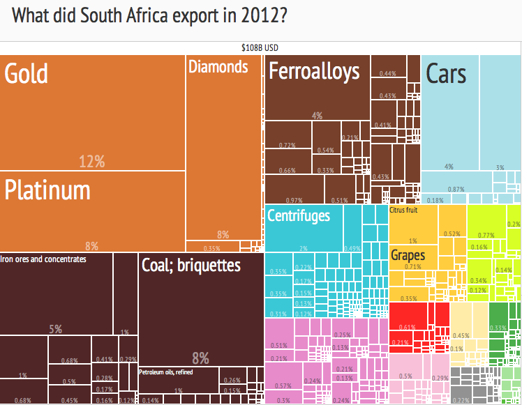 2012 South Africa Products Export Treemap